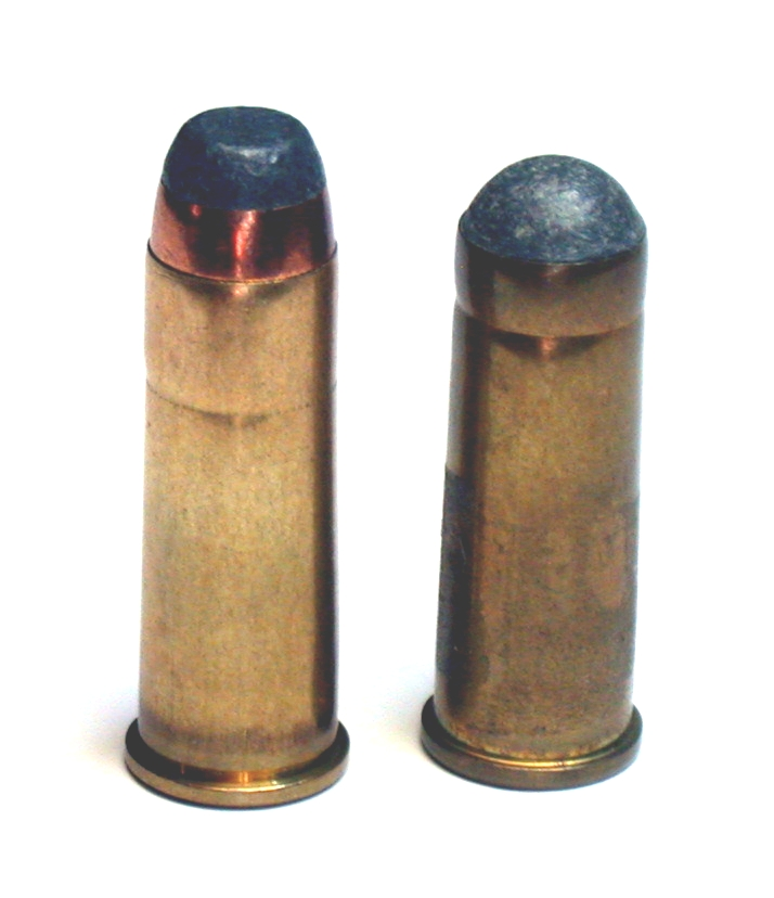 .44-40 left, .44-40 Game Getter right